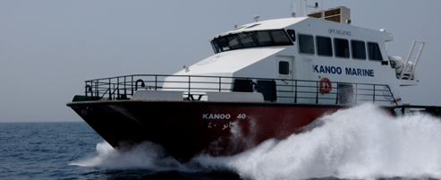 Kanoo Marine - Kanoo Shipping